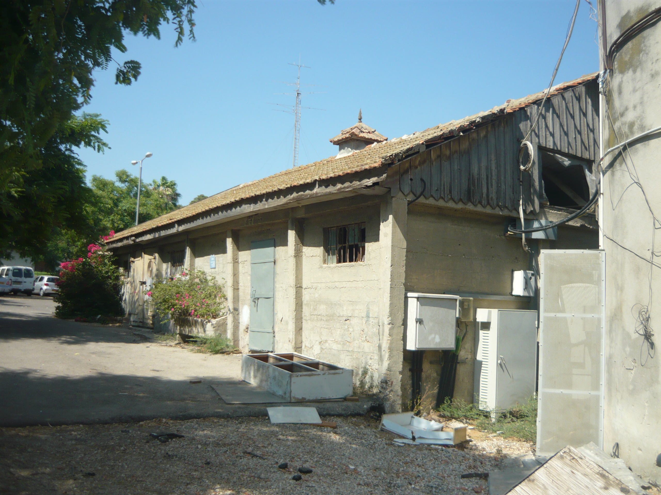 historic stable in kibbutz ginegar אורווה היסטורית בקיבוץ גניגר. נבנתה ב-1928, שימשה כסליק